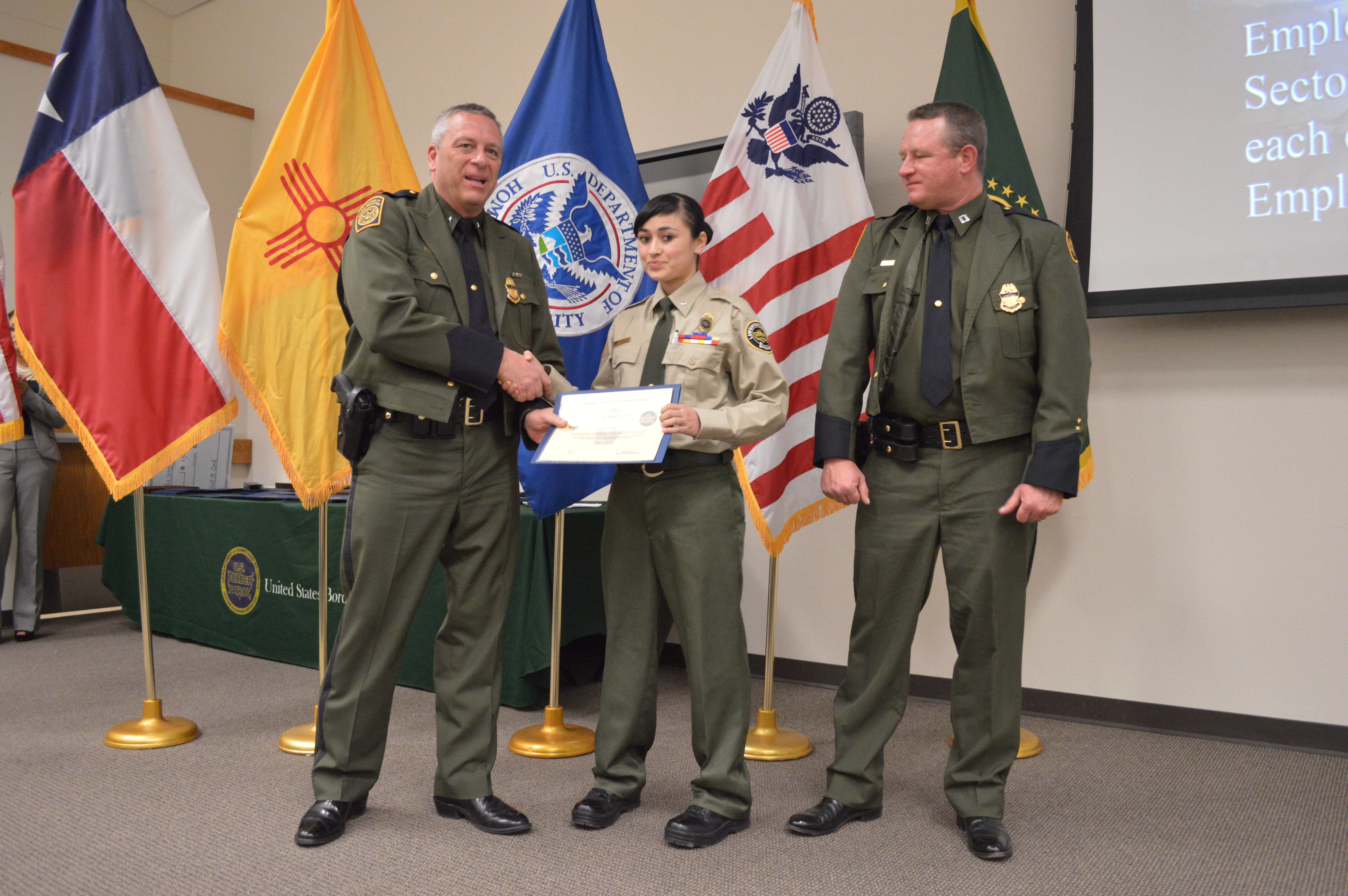 Customs and Border Patrol, Department of Homeland Security, West Texas and New Mexico U.S. border sector award ceremony for first quarter 2013 and annual awards for 2012. CBP awards presentation ceremony took place at El Paso CBP Station, March 1, 2013. U.S. Customs and Border Patrol Deputy Division Chief Michael E. Przybyl presented Border Patrol Explorer Kaila Paul of Deming, N.M., with the CBP sector level award here March 1. Her father, Supervisory Border Patrol Agent Michael D. Paul (right) was present at the annual CBP award ceremony at El Paso CBP station. The Explorer program partners with the Learning for Life program of the Boy Scouts of America, though the posts are clearly coed.